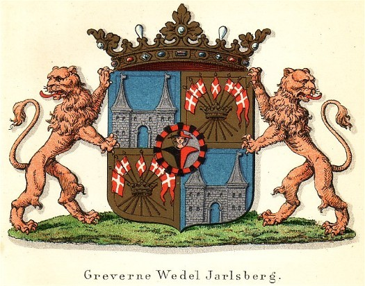 Coat of arms of the comital Wedel-Jarlsberg family